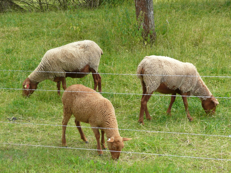 Ökologisch-Botanischer Garten der Universität Bayreuth two sheep and a lamb of Coburger Fuchsschaf, late june